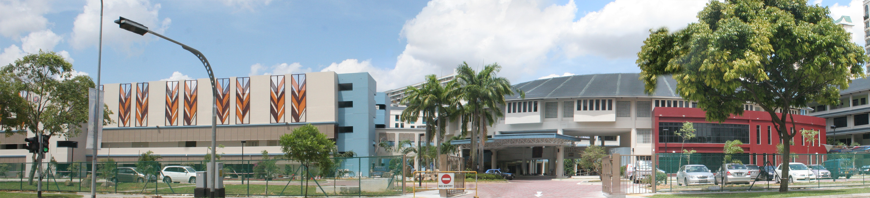 A panoramic view of Dunman High School's upgraded Tanjong Rhu Campus in Kallang, Singapore.